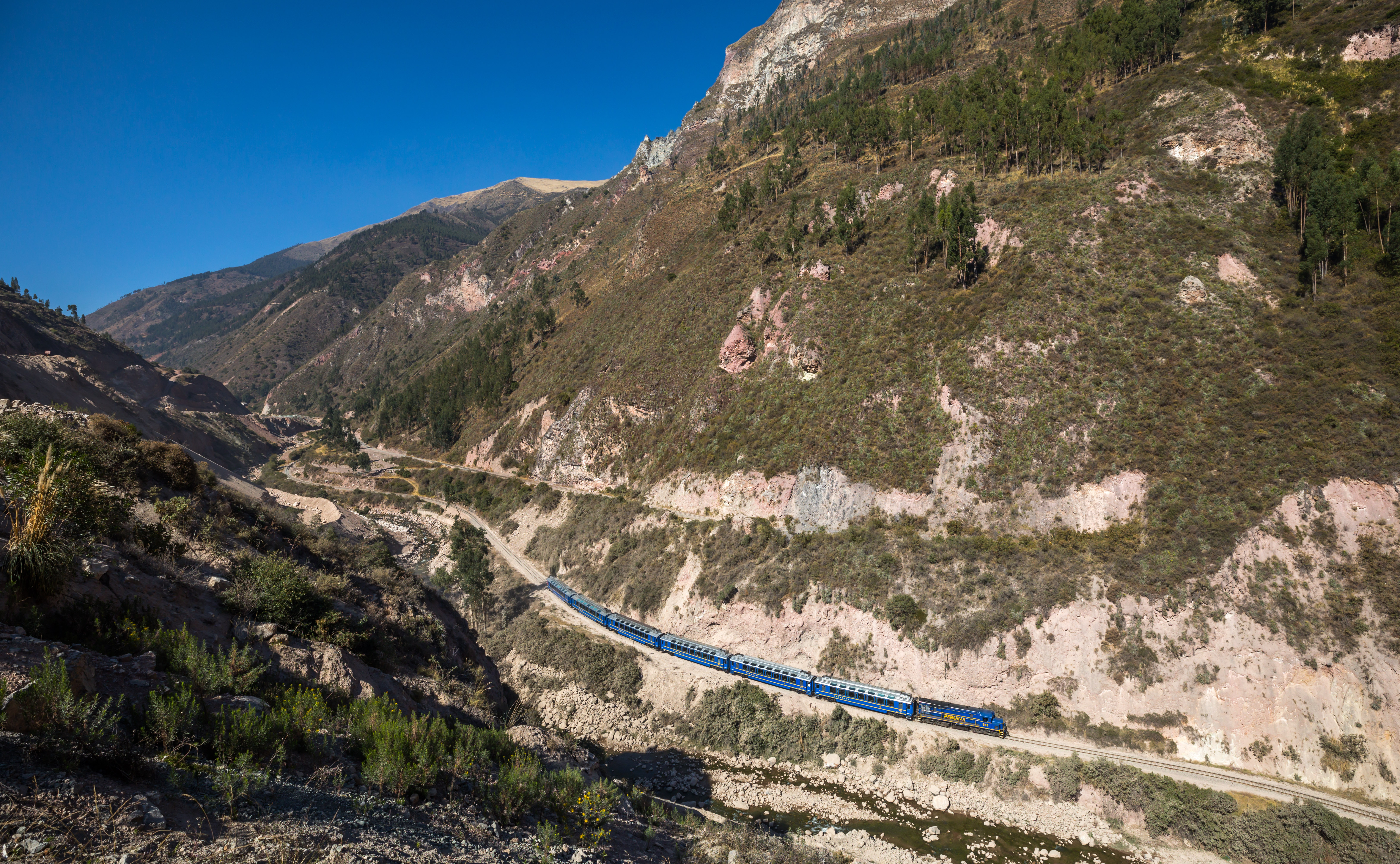 PeruRail's 353 hauls Vistadome 203 from Poroy (outside Cusco) to Ollantaytambo, and later to Aguas Calientes. The train has just passed the switchback near Huarocondo, still visible in the background.